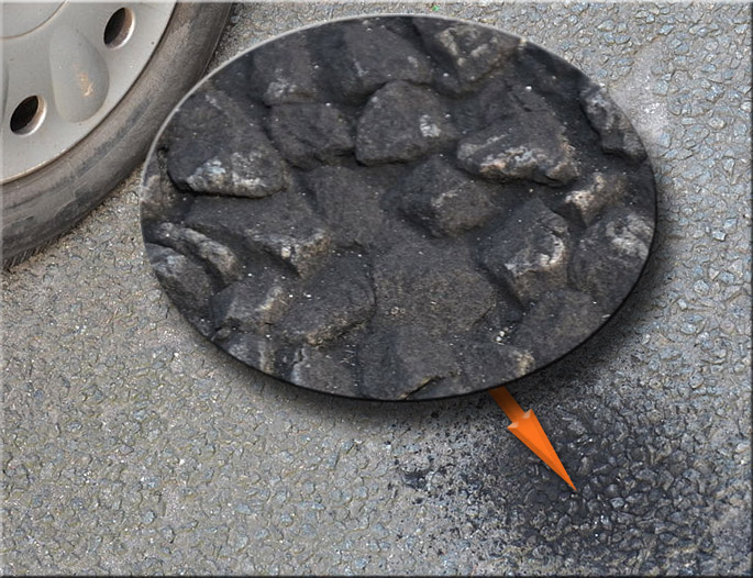 Deposition of carbon particles, from a muffler, at cold start.